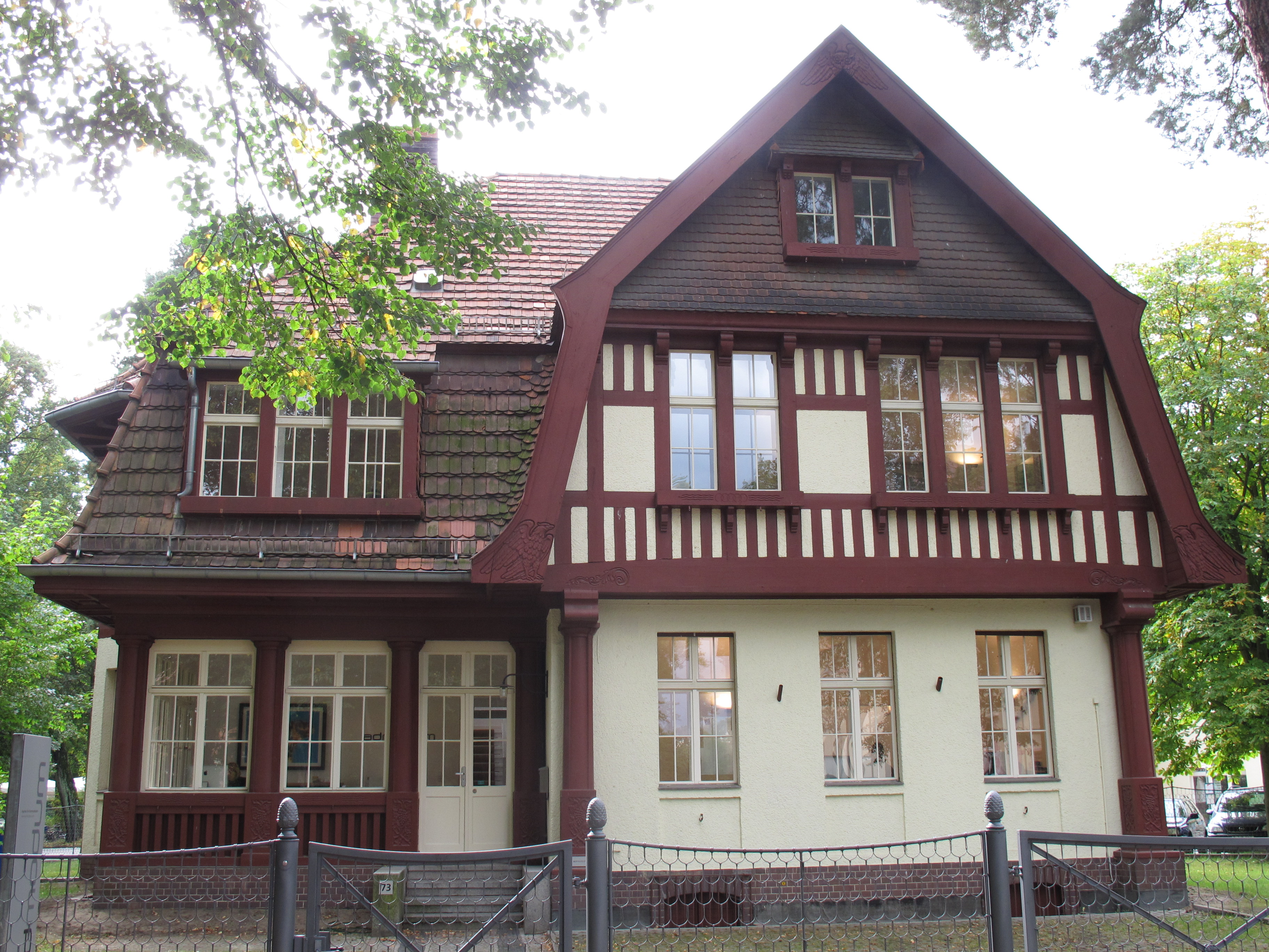 The house at 73 Karl Marx Street in the Babelsberg district of Potsdam, Brandenburg, Germany is a listed building.